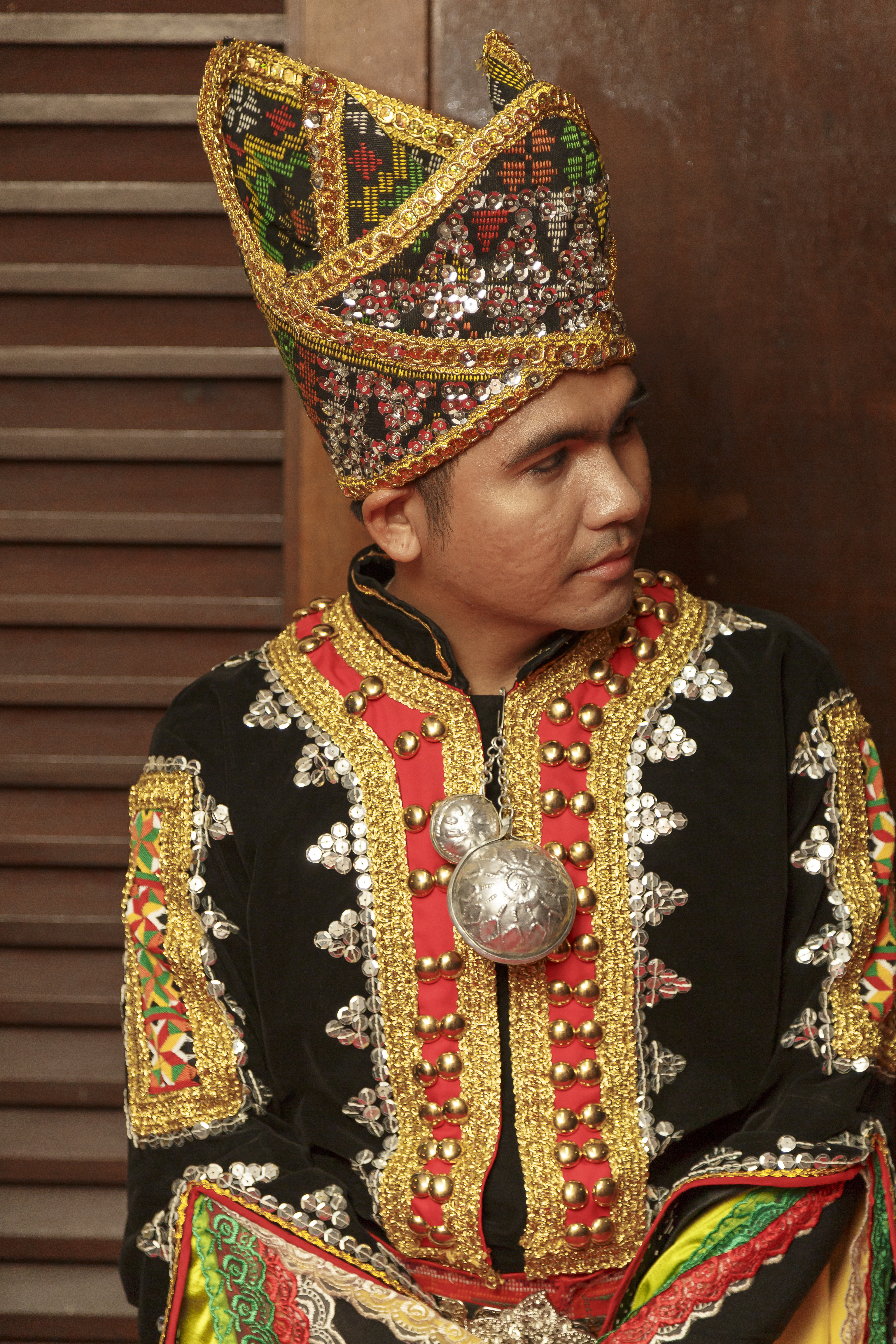 Penampang, Sabah: A member of the Dusun Tindal people during Kaamatan 2014